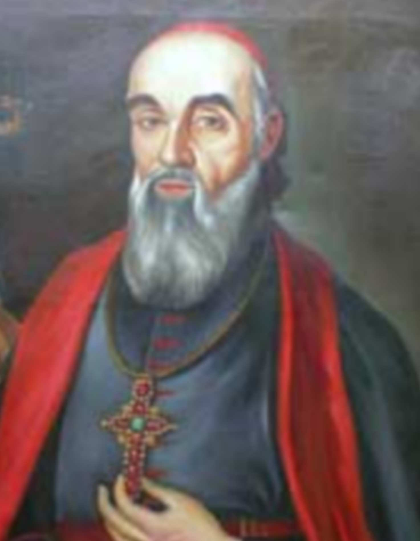 Ignatie Darabant (1738–1805), Bishop of the Diocese of Oradea Mare of the Romanian Greek Catholic Church from 1789 to 1805.